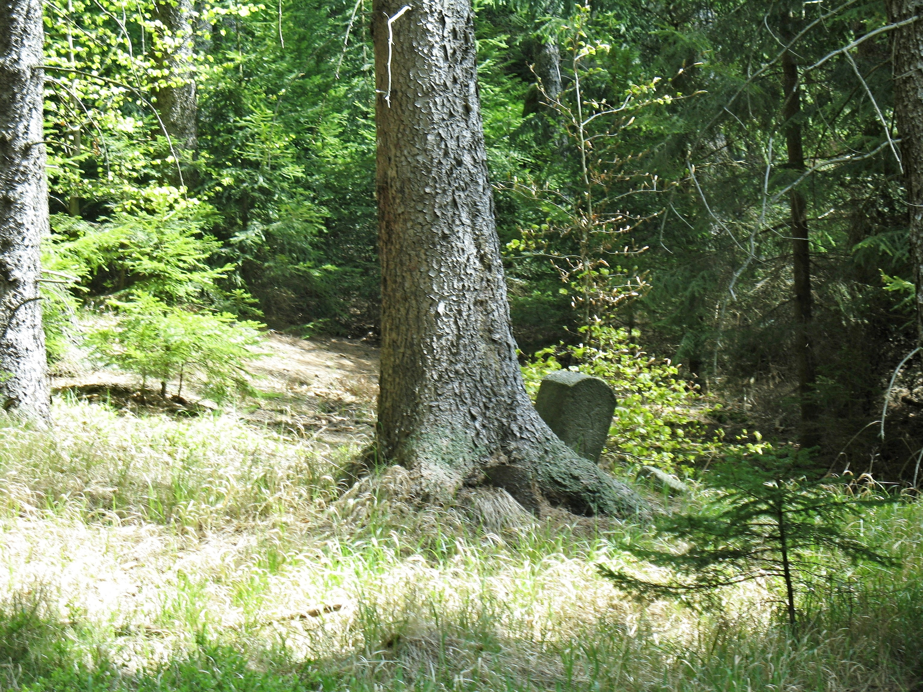 Bučina (534 m), hill in Lusatian Mountains, northern Bohemia